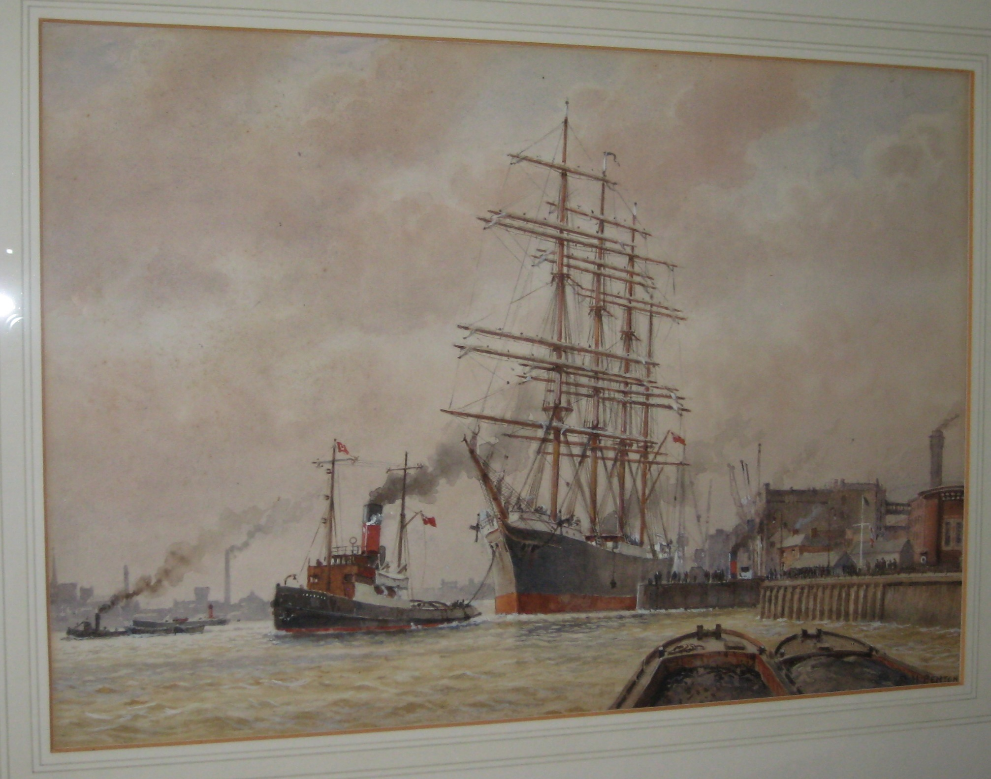 Watercolour by Richard Howard Penton (also known professionally as Howard Penton) 1882 -1960. A founder member of the Wapping Group of artists founded in 1946 which still actively exists, observing and Painting the river Thames. This watercolour dated about 1949 shows the Pamir, a German sail training ship, leaving Wapping in London.